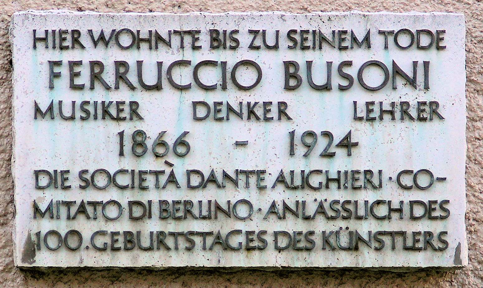 Memorial plaque, Billy Wilder, Viktoria-Luise-Platz 11, Berlin-Schöneberg, Germany Koordinate:52°29′43″N 13°20′32″E / 52.49528°N 13.34222°E